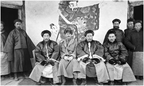 Carl Gustaf Emil Mannerheim in Aksu, Xinjiang (1907).